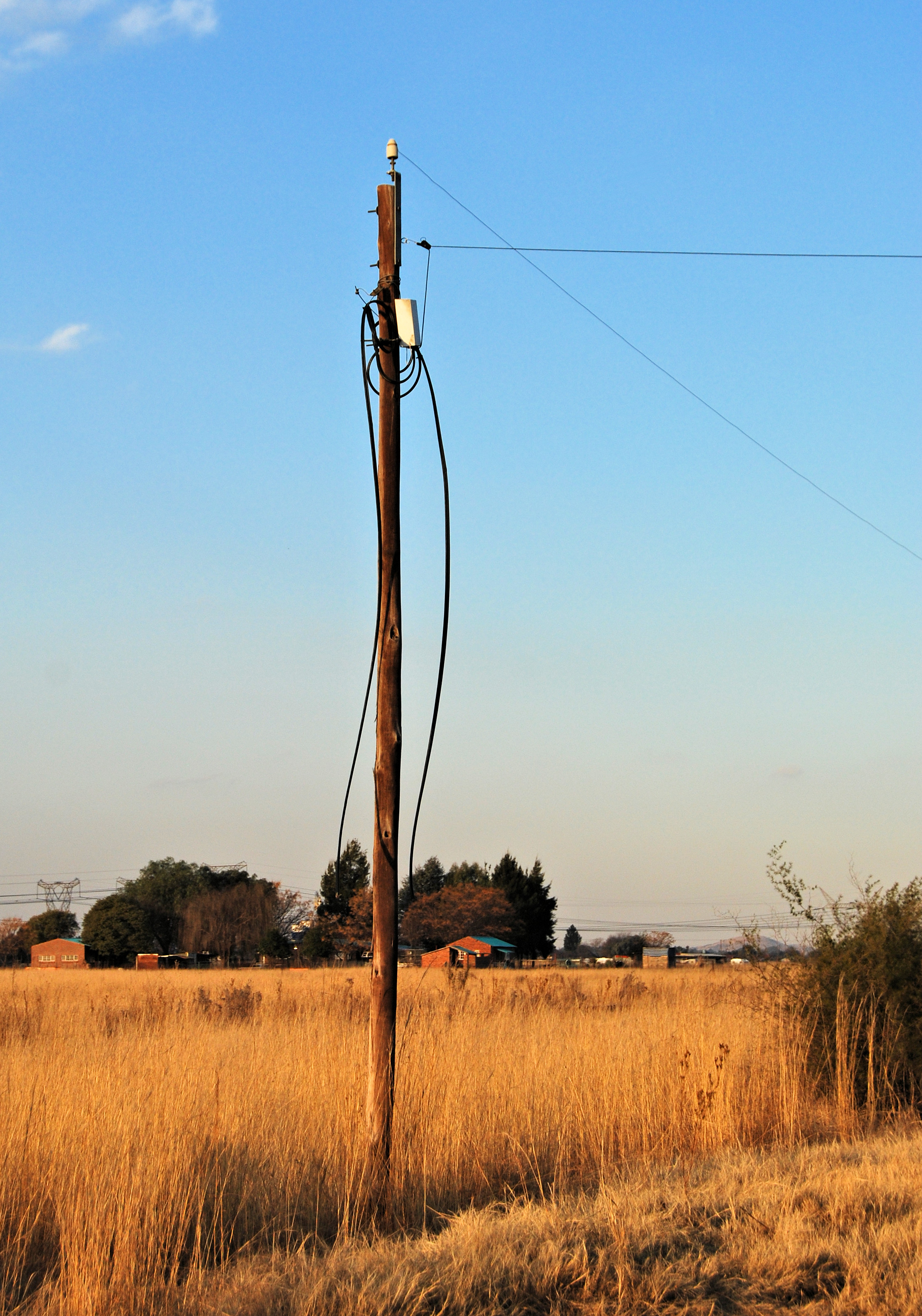 Cable theft in Buyscelia AH, Meyerton, South Africa